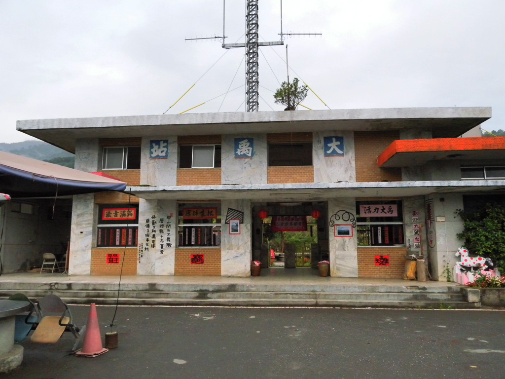 TRA DaYui station中文（台灣）: 臺鐵大禹車站(廢)